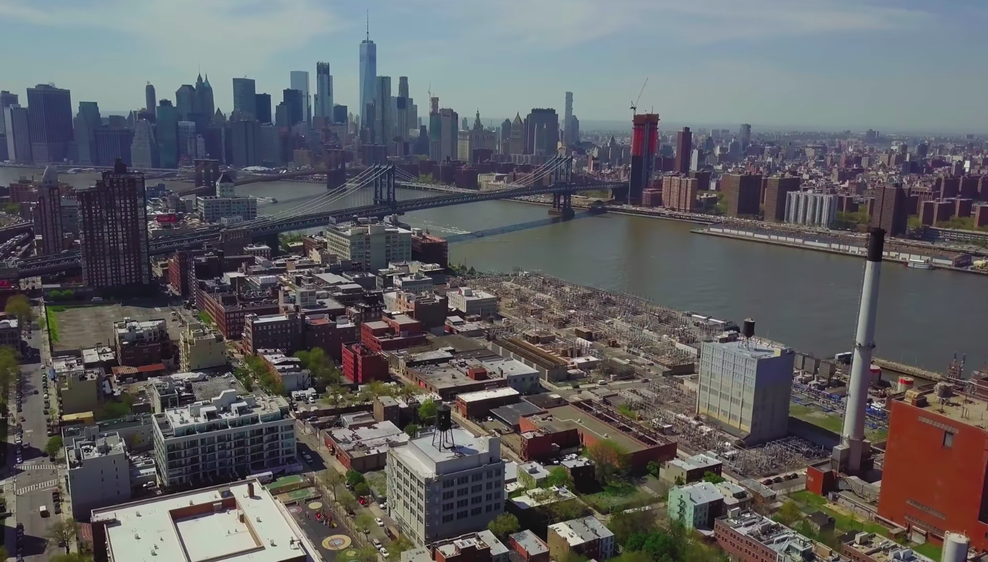 Vinegar Hill is a tiny neighborhood in Brooklyn that is just east of the Manhattan Bridge, sandwiched between Dumbo and the Brooklyn Navy Yard, and bordered by the East River to the north, and Downtown Brooklyn to the south. First settled by an Irish population, the neighborhood gets its name as a tribute to the Battle of Vinegar Hill during the Irish rebellion of 1798.